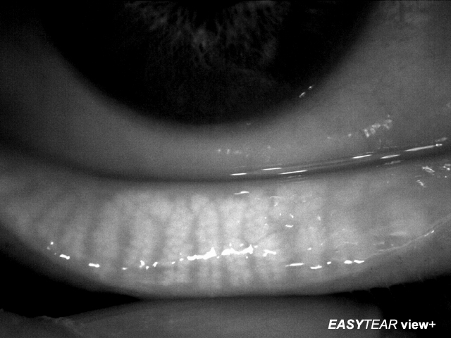 esame con ir delle ghiandole di Meibomio congiuntiva tarsale inferiore